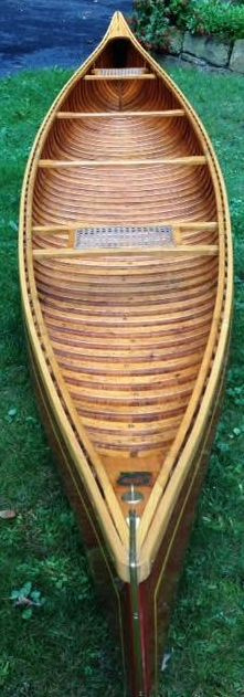 Interior of Peterborough canoe owned and restored by Fred Capanos